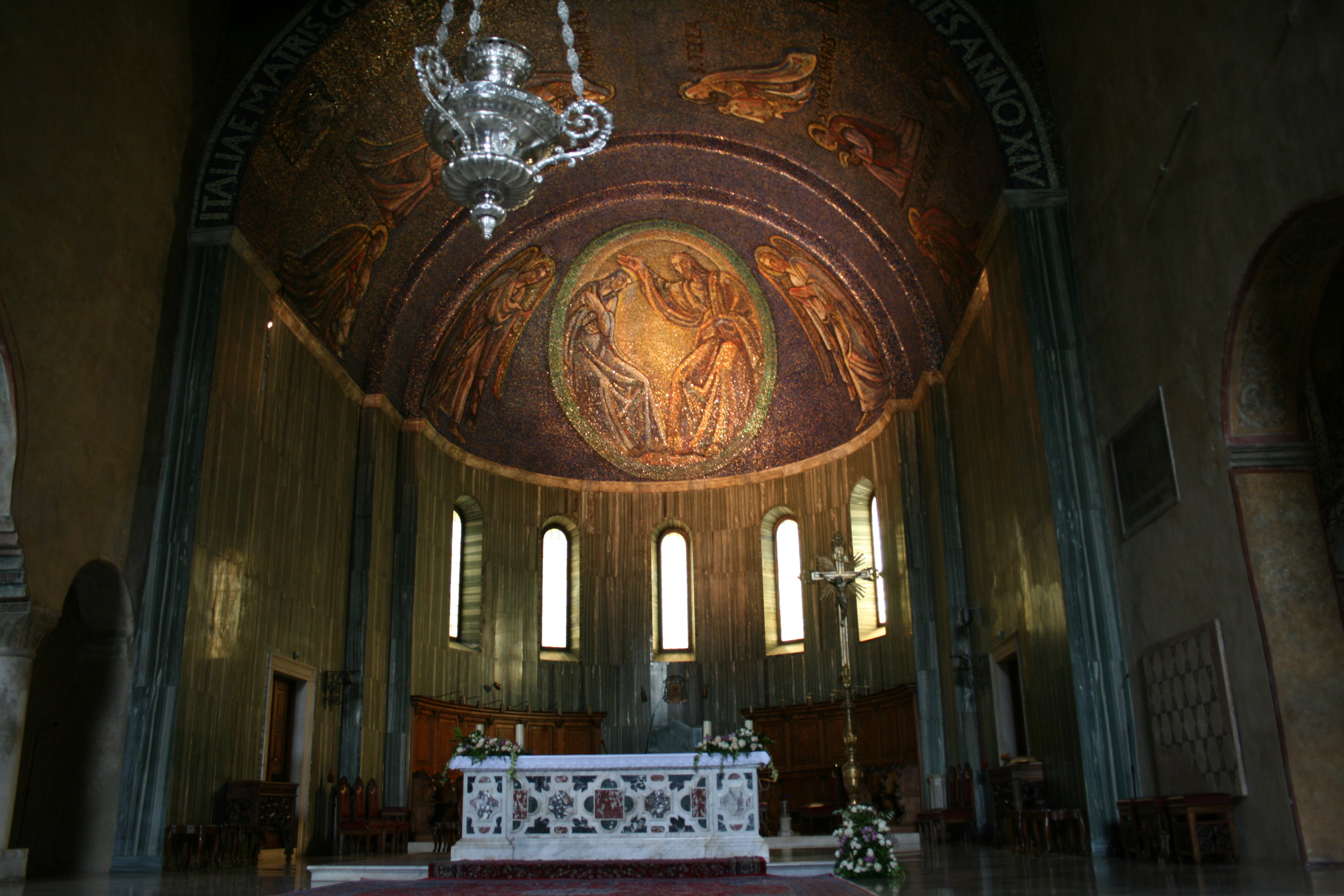 Altar of the Trieste Cathedral